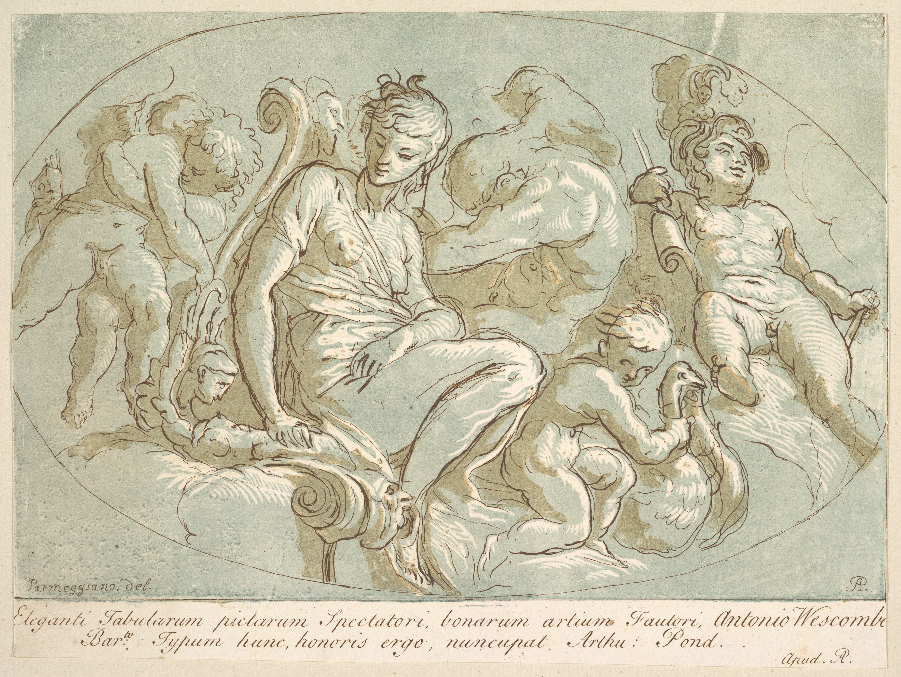 Print; Prints